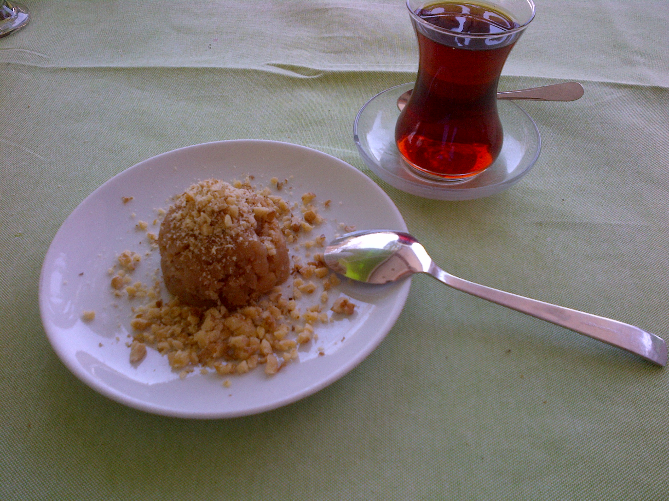 "Un helvası" from the Turkish cuisine, covered with ground walnuts, and in company of a glass of Turkish tea.